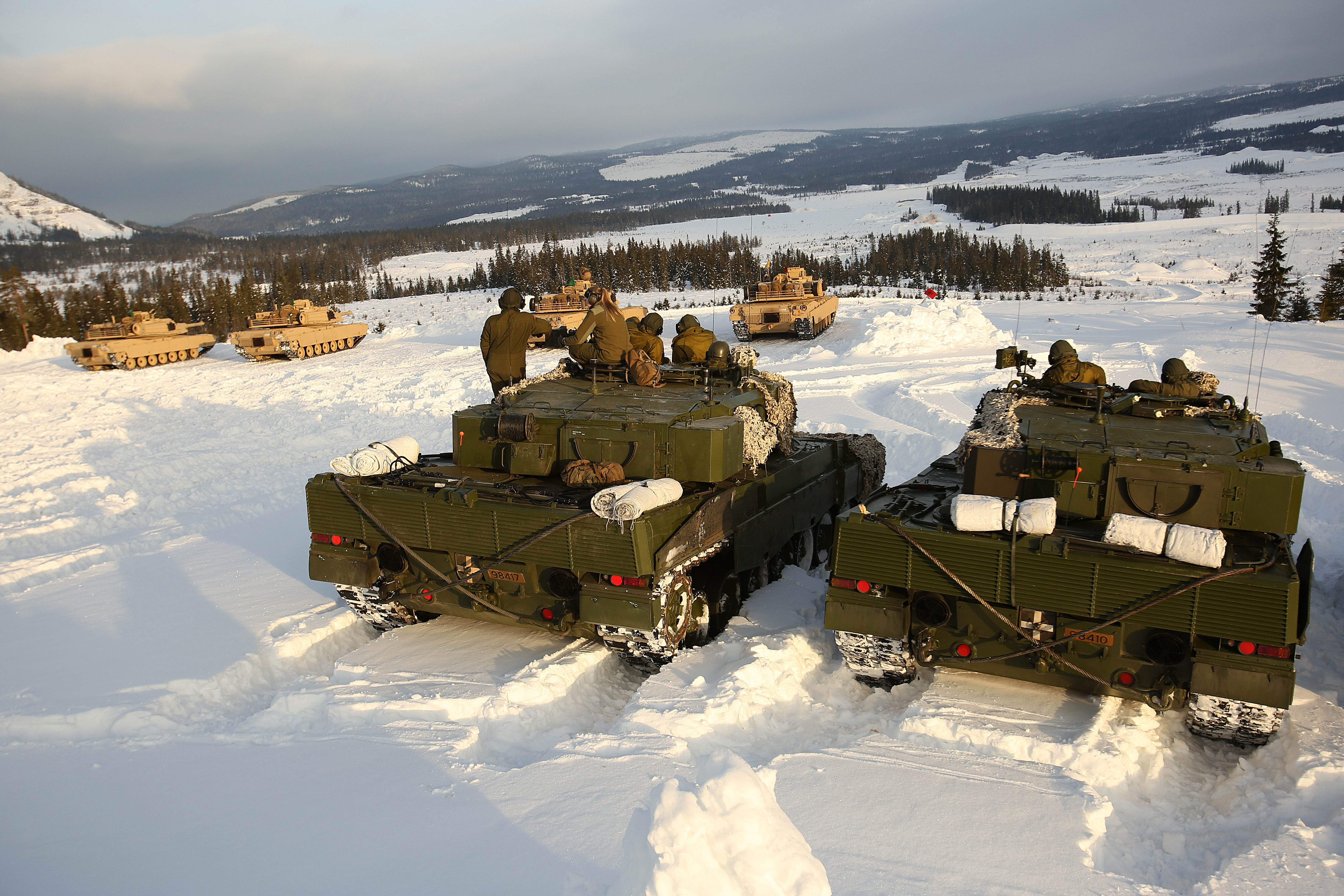 M1A1 Abrams Tanks fire their main guns as Norwegian Leopard 2 tank crews observe as a part of a live-fire exercise in Rena, Norway, Feb. 18, 2016. The Marines are preparing for Exercise Cold Response 16, which will bring together 12 NATO Allied and partner nations and approximately 16,000 troops in order to enhance joint crisis response capabilities in cold weather environments. The Norwegian Telemark Battalion instructed various U.S. Marine units on cold weather survival techniques to driving armored vehicles on ice-covered roads in the weeks leading up to exercise Cold Response 16 beginning at the end of the month. The two nations along with the other participating countries will conduct multi-lateral training to improve U.S. Marine Corps capability to operate in cold-weather environments.